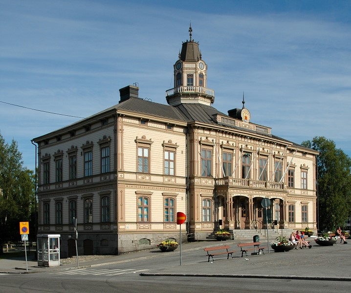 Town hall of Jakobstad, Finland